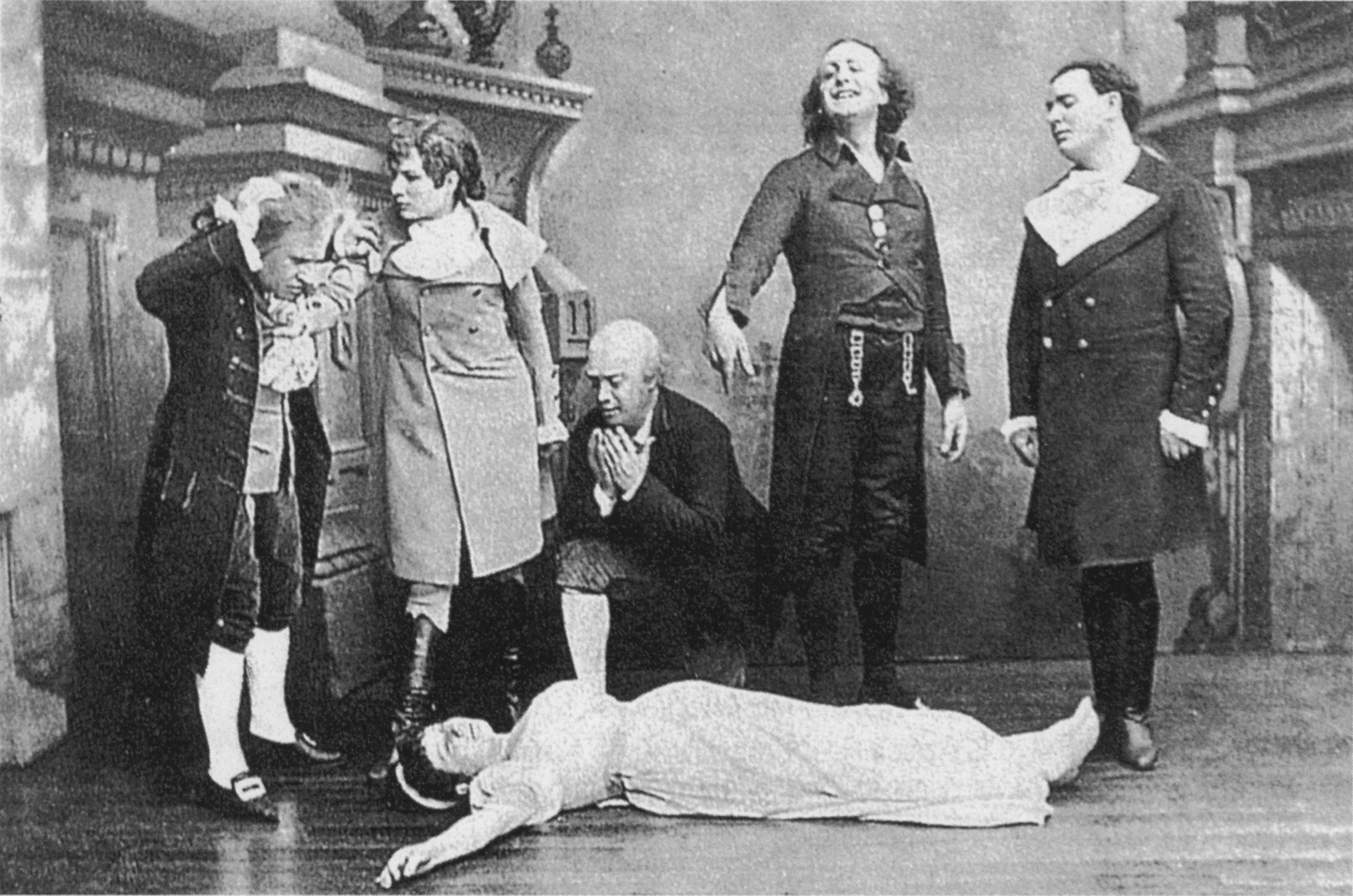 End of Act 3 "La mort d'Antonia" of Offenbach's opera Les contes d'Hoffmann, as performed in the first production at the Opéra-Comique in Paris in 1881. In front: Adèle Isaac (Antonia); in back, left to right: Hippolyte Belhomme (Crespel), Marguerite Ugalde (Nicklausse), Pierre Grivot (Franz), Émile-Alexandre Taskin (Miracle), Jean-Alexandre Talazac (Hoffmann)